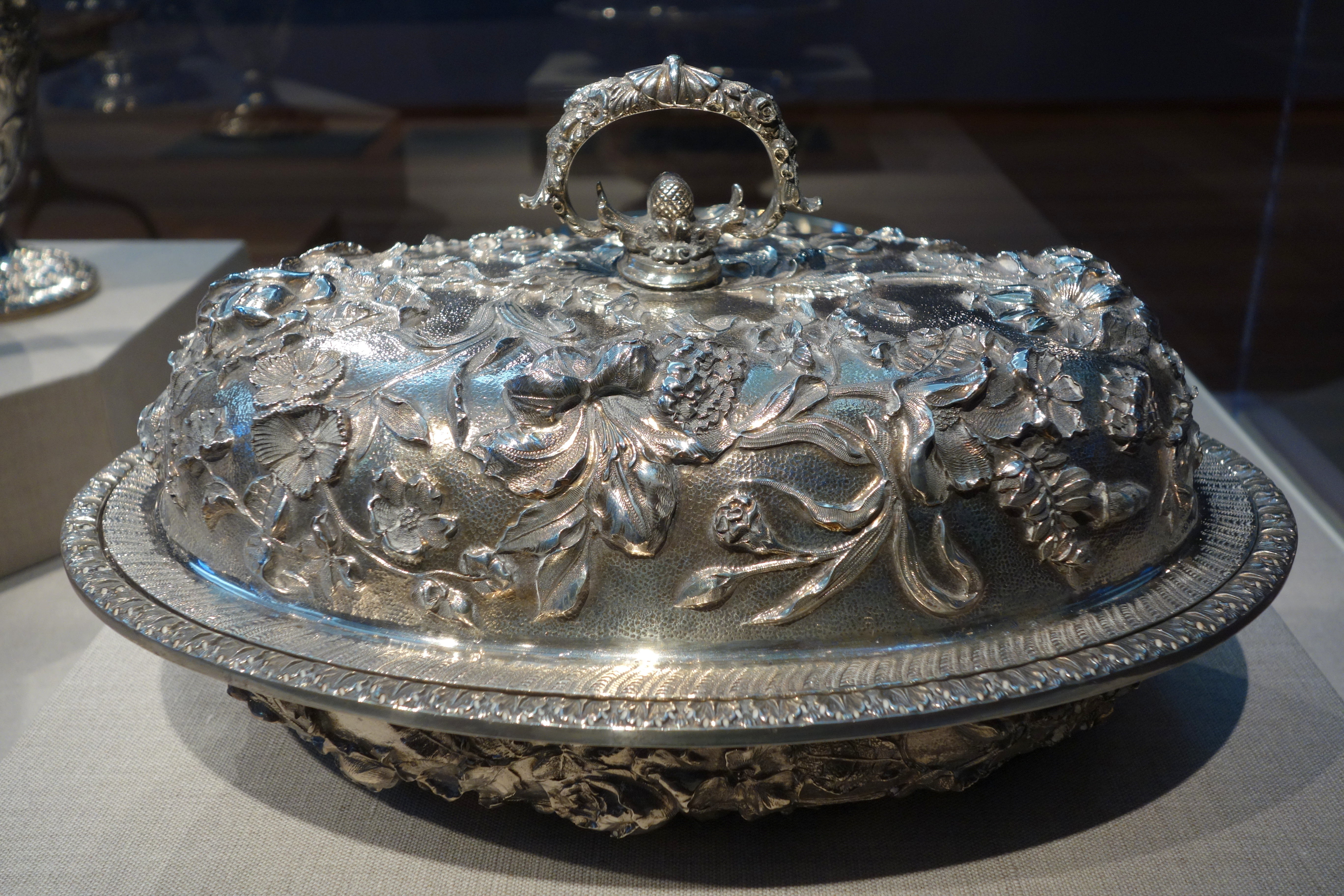 Exhibit in the De Young Museum, San Francisco, California, USA. This artwork is in the public domain because the artist died more than 70 years ago.